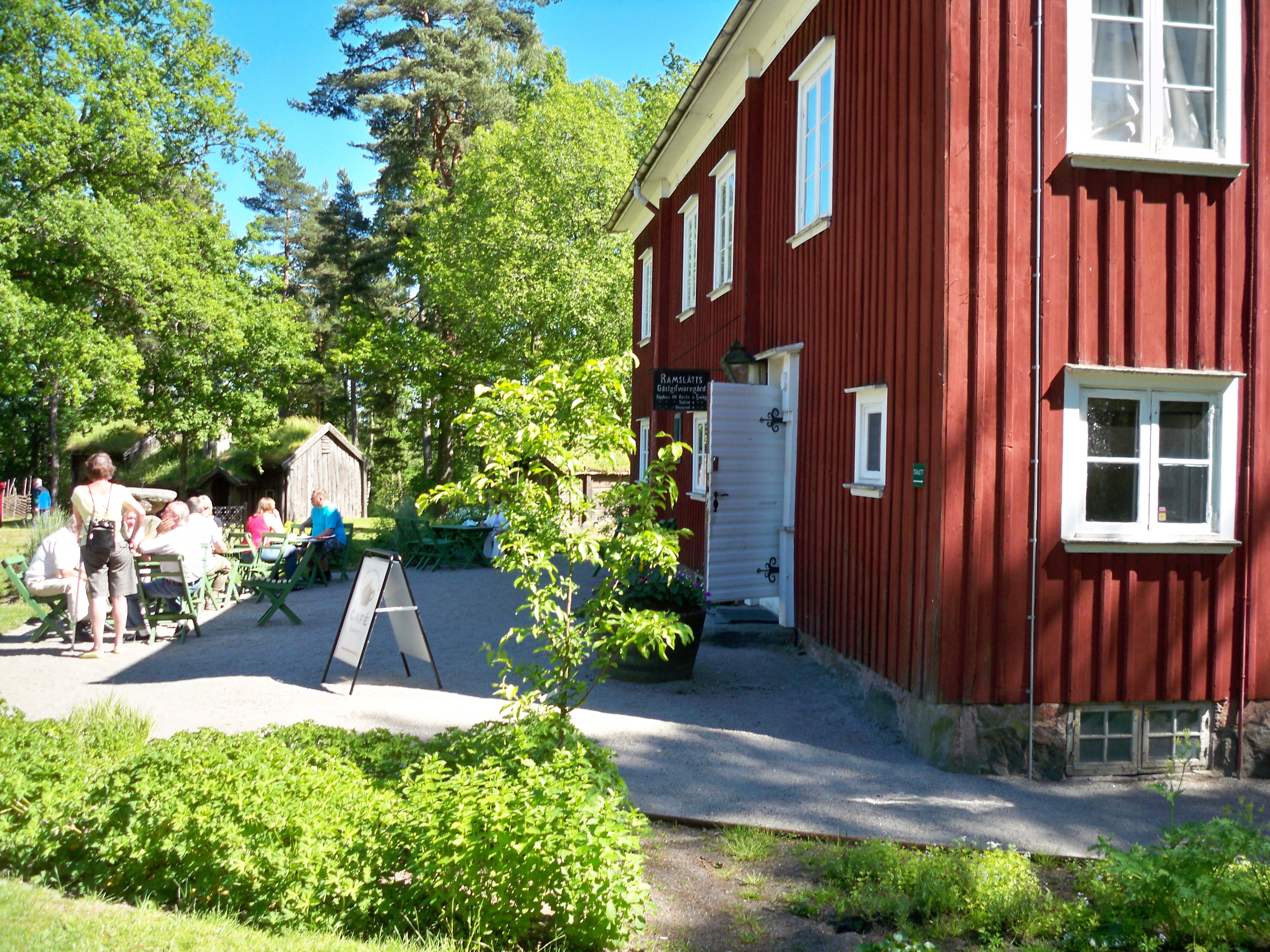 A wooden 18th century Swedish countryside inn from the village of Ramslätt (Ramslätts by ), moved to the open air museum park of Ramnaparken in the city of Borås, Sweden.